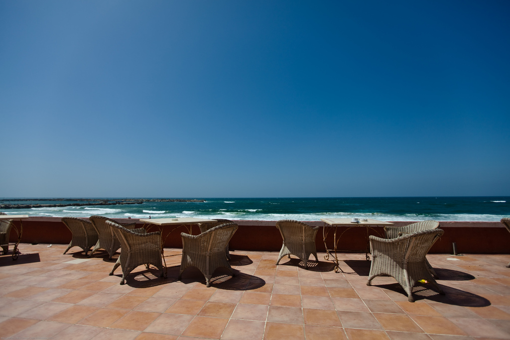 A sea view from the Al Deira hotel, Gaza. [1]Gaza 2009 Project by Marius Arnesen is licensed under a Creative Commons Attribution-Share Alike 3.0 Norway License.